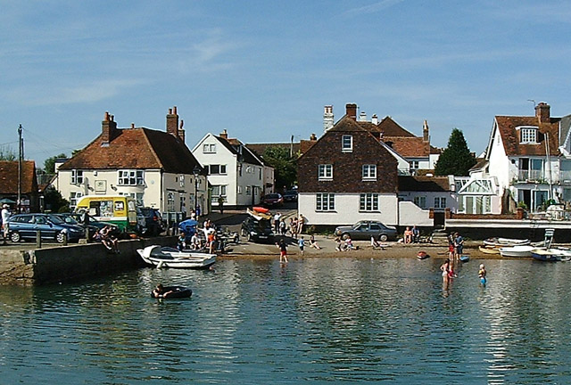 The slip at Emsworth. When the tide is in, and the weather hot, this area is bustling with activity.